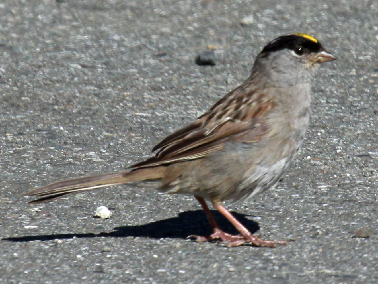 Golden-crowned Sparrow (Zonotrichia atricapilla) - Hatcher Pass, Alaska